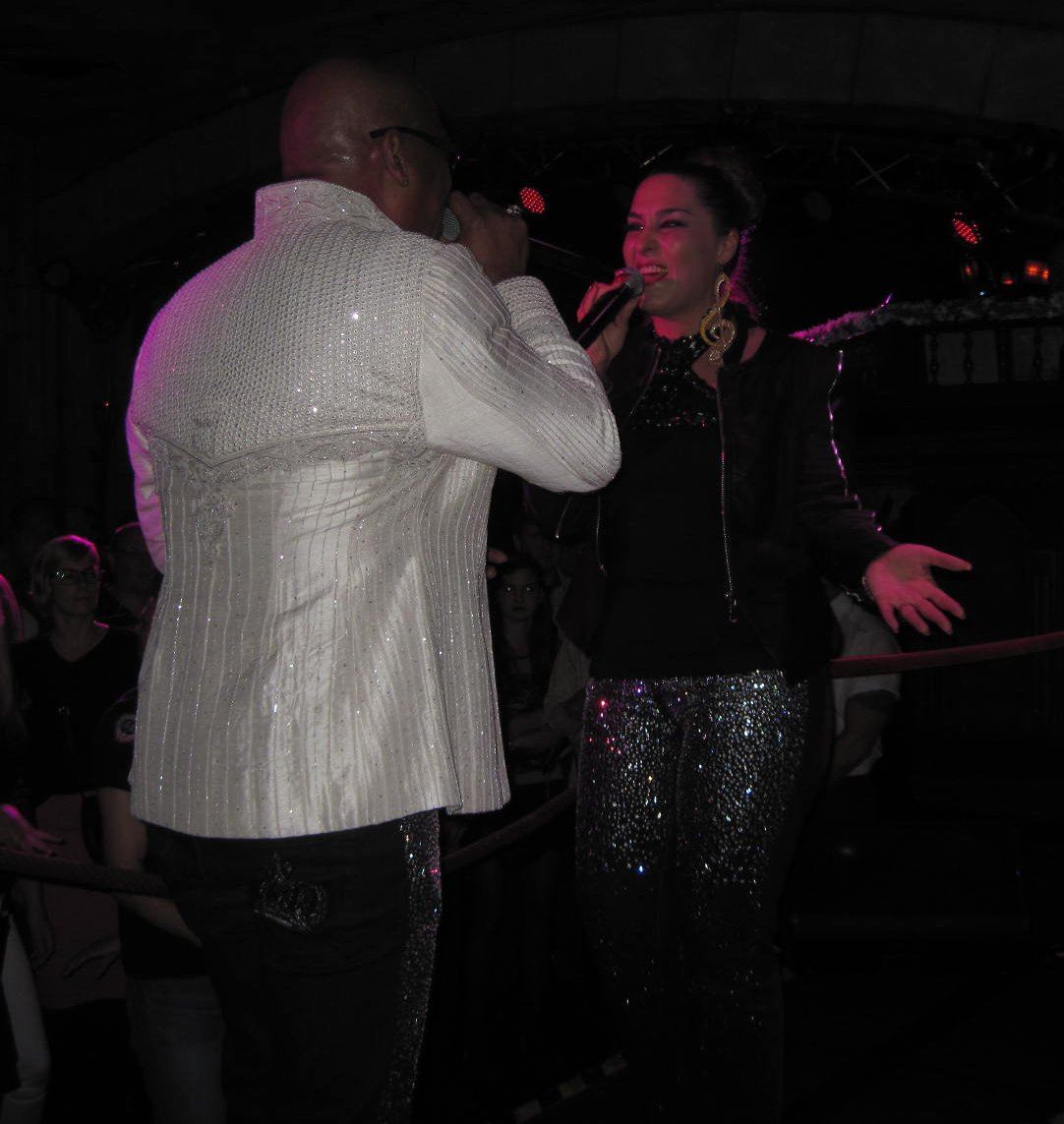 La Bouche (Lane McCray and Sophie Cairo alias Zsófi Farkas) at A-Danceclub (Vienna)